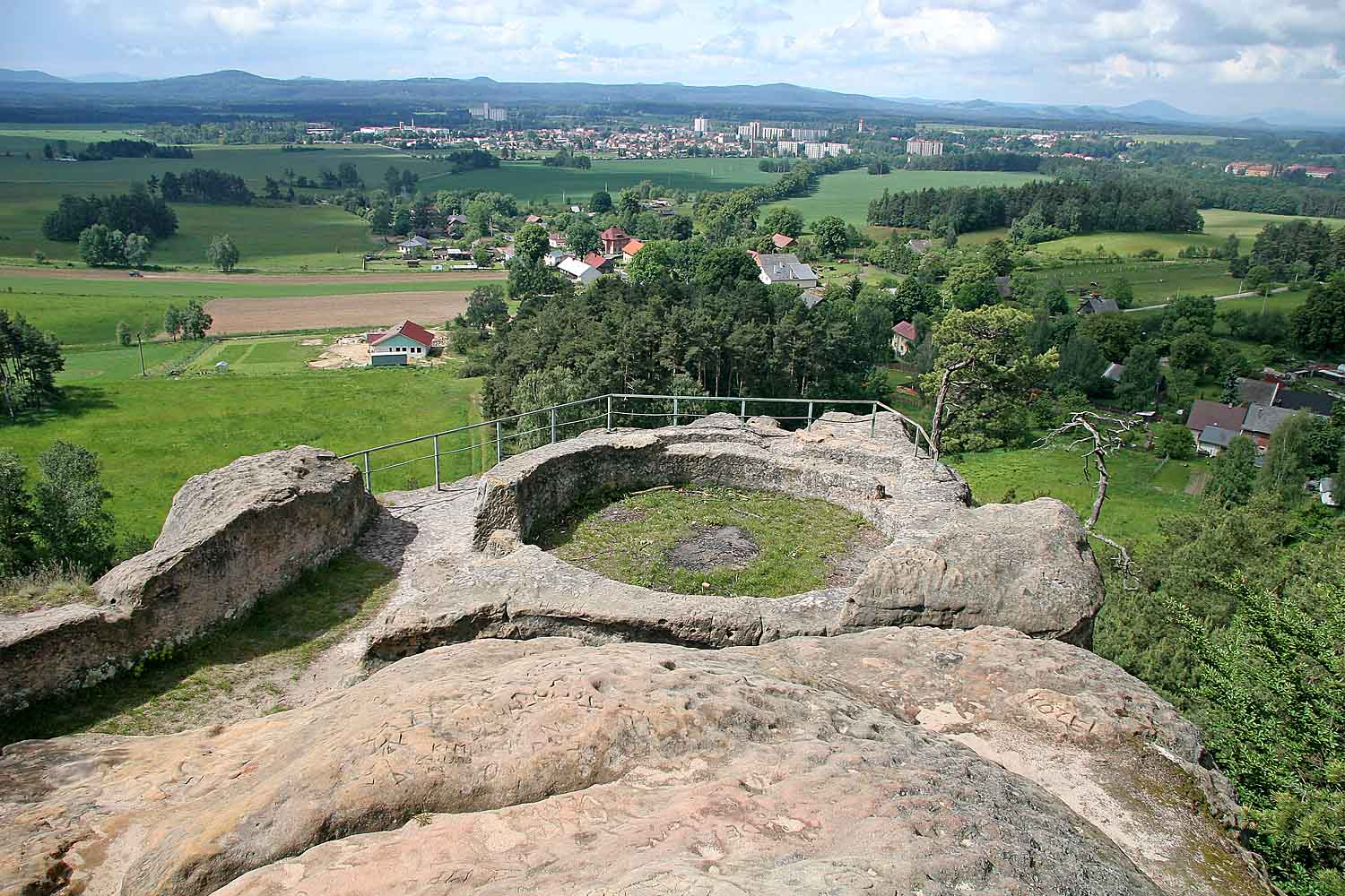 View from the Juliiny vyhlídky of the Vranovské skály at the southern slope of Mt. Ralsko towards the southwest. The buildings in the foreground belong to Vranov, the settlement in the backgound is Mimoň.